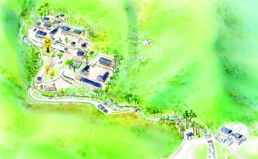 The Yongmun temple in South Korea